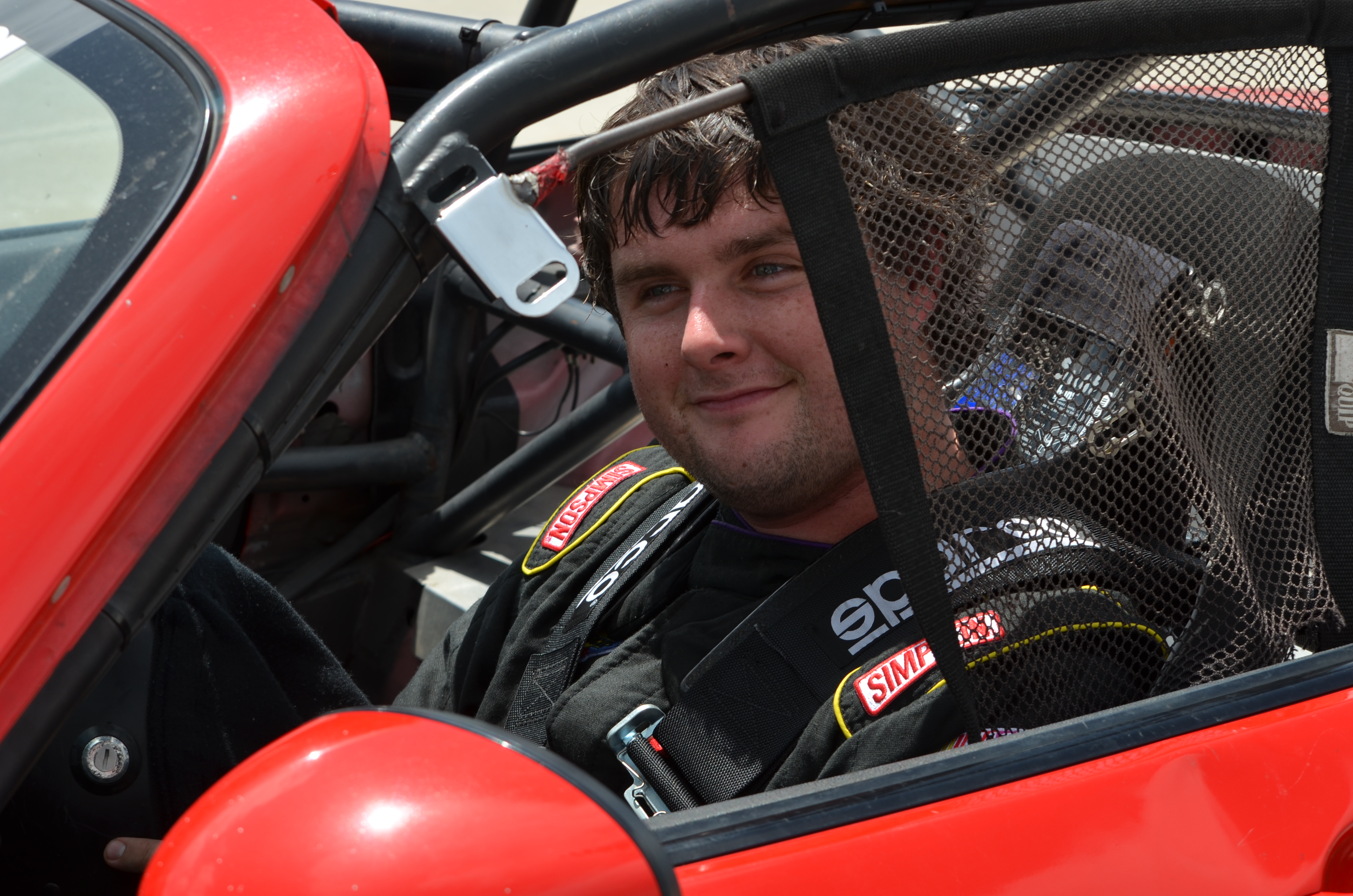 Bryan Silas ready for action in a Skip Barber Racing School Mazda MX-5 during Rounds 5 and 6 of the Skip Barber Summer Series at Palm Beach International Raceway, June 23, 2013.